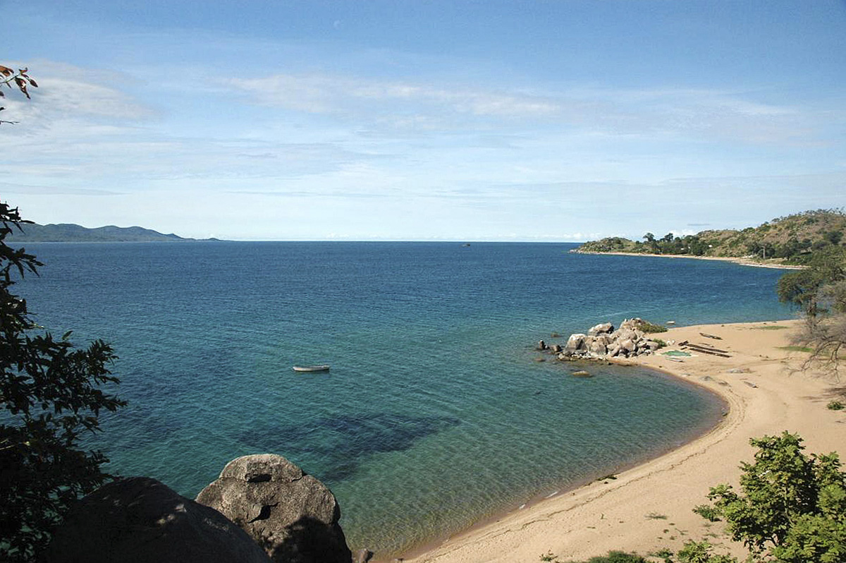 Chiponde on Likoma Island, Lake Malawi